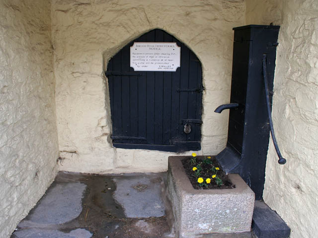 The village pump, Basin Lane, Lanreath. Tucked in an alcove between two cottages this pump is no longer used. See 434509 for the official notice.